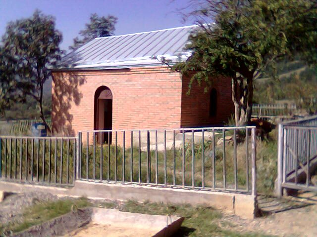 Norio st. giorgi church, Georgia